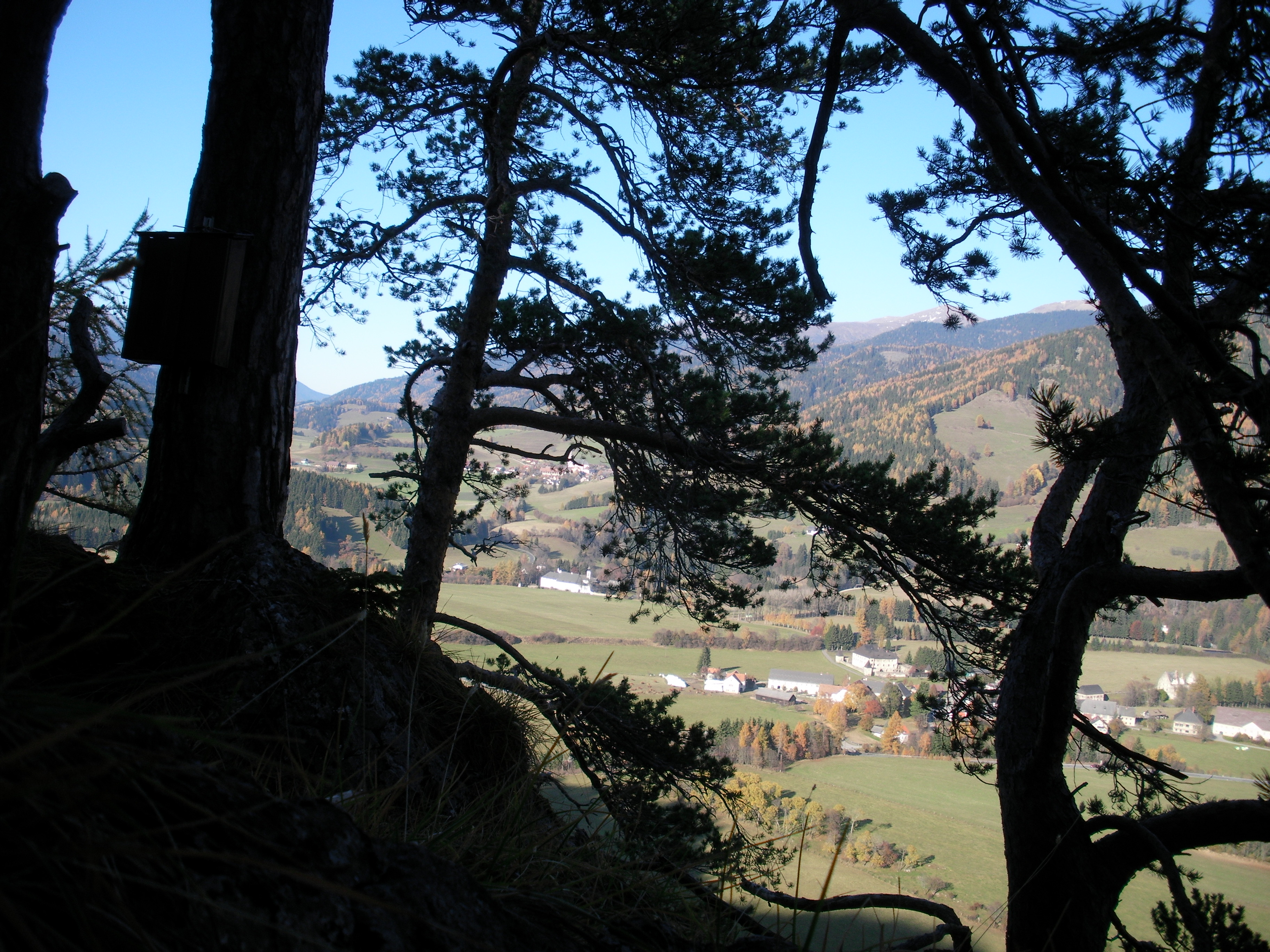 Joseph von Hammer-Purgstall 150. death Jahr 2006, Purgstallofen Unterzeiring Rottenmanner und Wölzer Tauern Sankt Oswald-Möderbrugg.